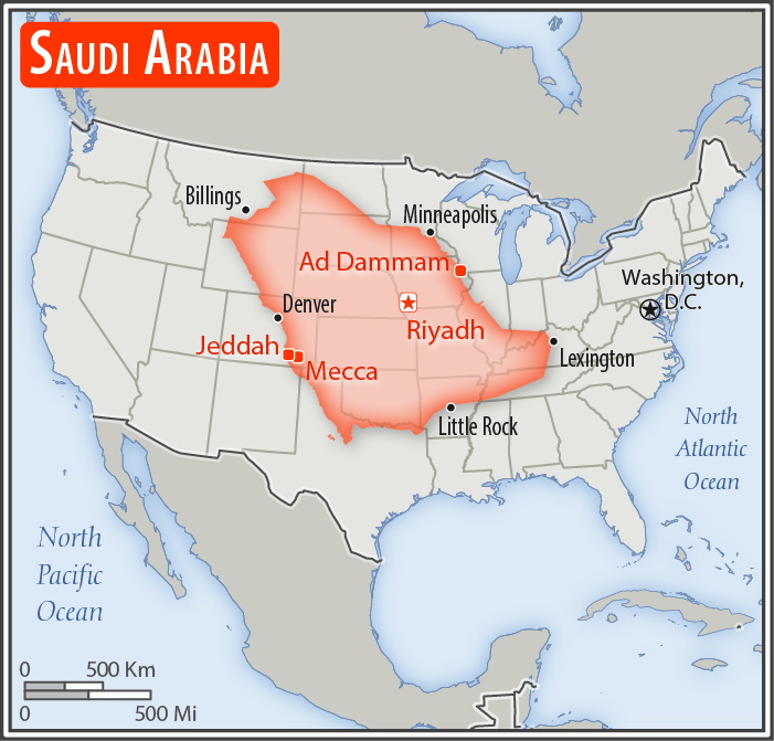 Comparison of the areas of two country. The area of Saudi Arabia with biggest cities (red) overlay the area of the United States of America (gray background).